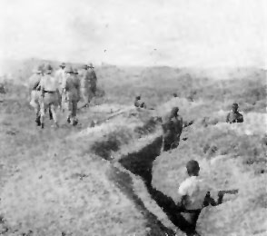 Italian trench captured by Belgian troops during the Seige of Saïo in Ethiopia